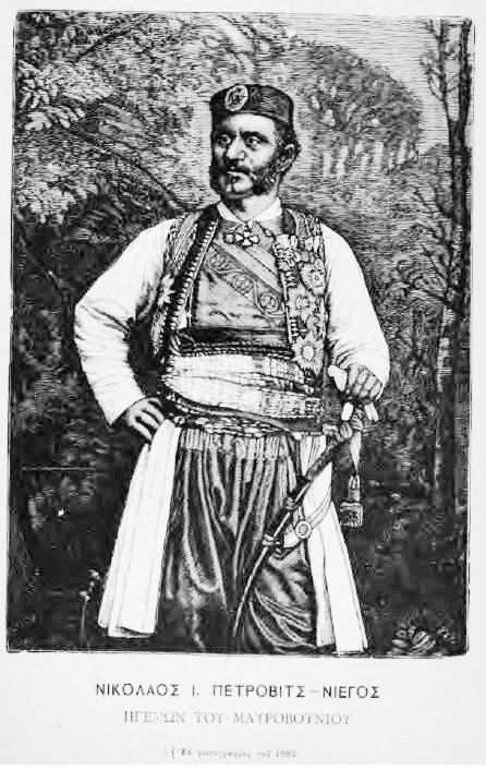 Poikilē stoa: ethnikē eikonographēnenē epetēris ... Etos 1-16, 1881-1914 (1882) Author: Ioannes A. Arsenēs , Michael A . Raphaelobits Volume: 3-4 Publisher: Estia Year: 1882 Possible copyright status: NOT_IN_COPYRIGHT Language: Greek Digitizing sponsor: Google Book from the collections of: Harvard University Collection: americana